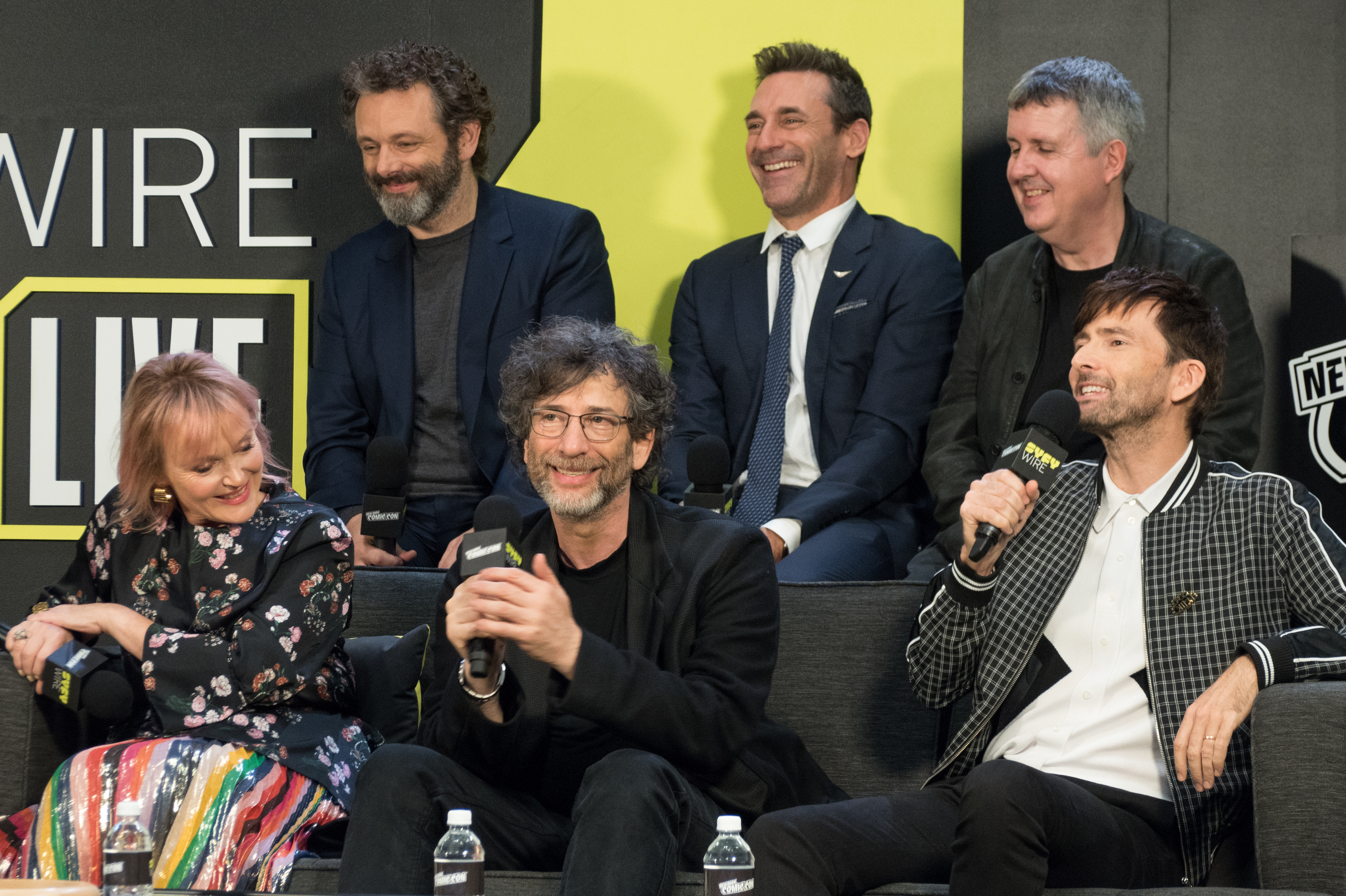 Good Omens panel at New York Comic Con in October 2018. Front: Miranda Richardson, Neil Gaiman, David Tennant. Rear: Michael Sheen, Jon Hamm, Douglas Mackinnon.